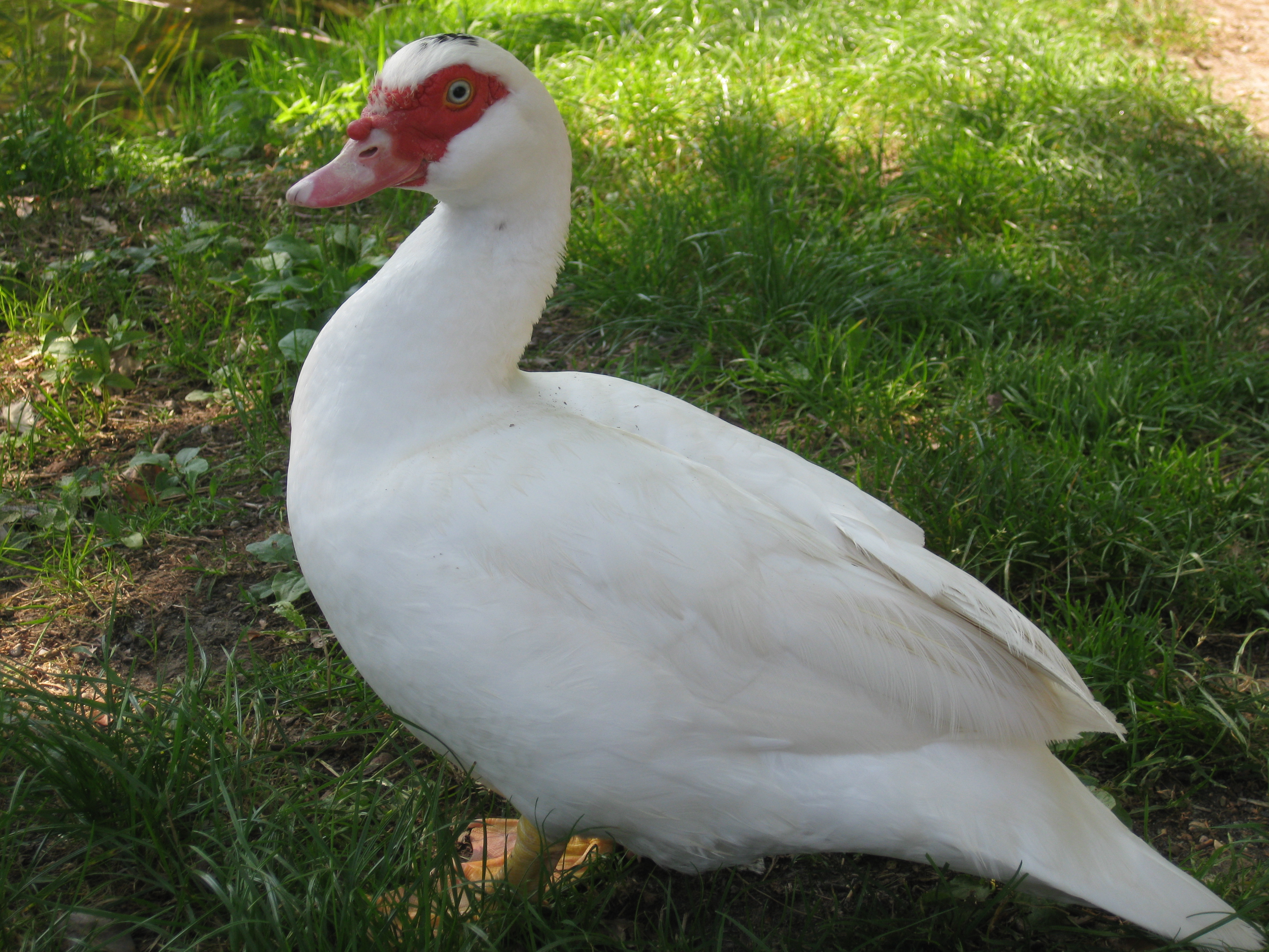 a duck at imbersago ITALY